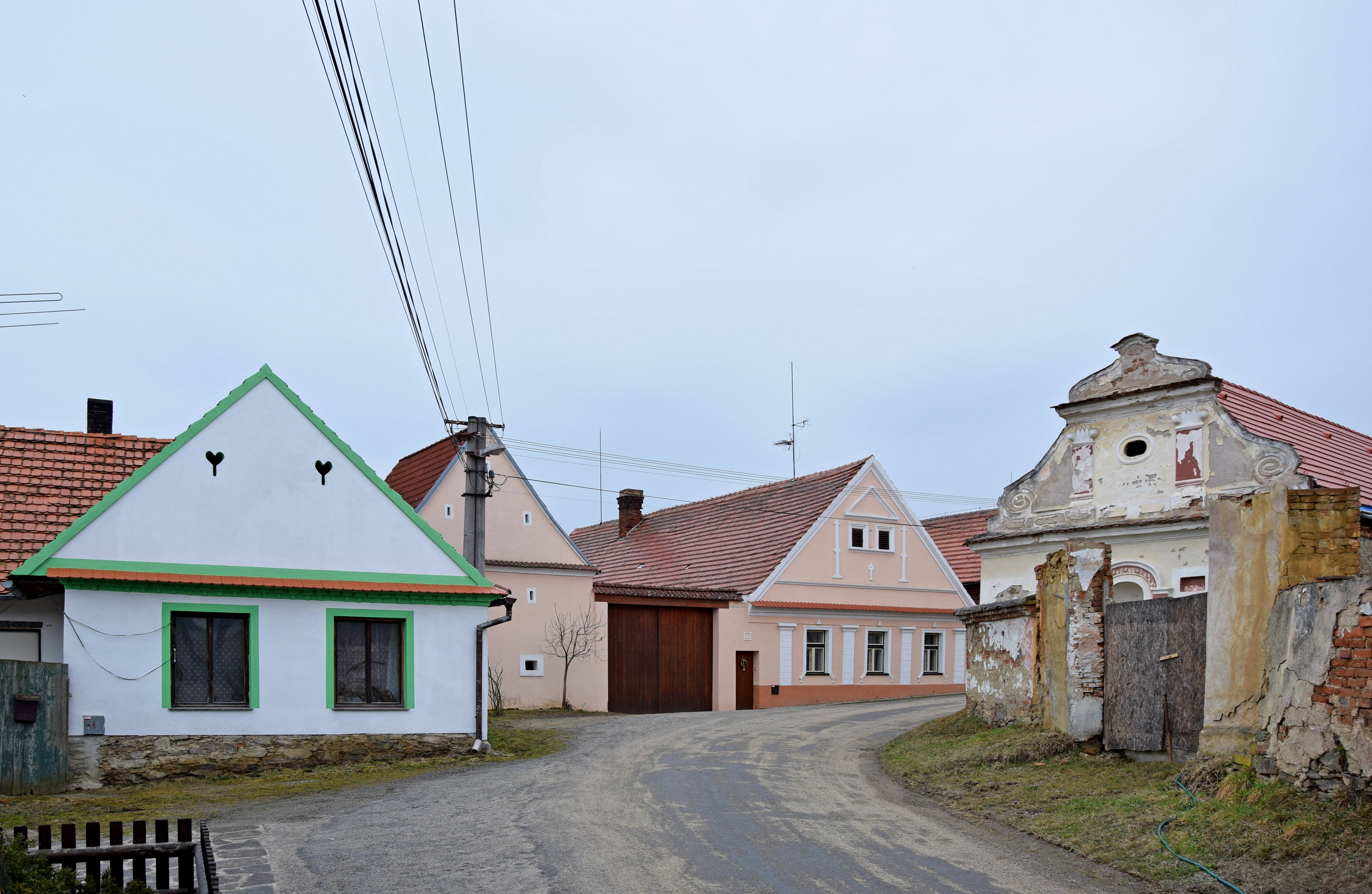 The village of Líšnice, České Budějovice District, the Czech Republic.